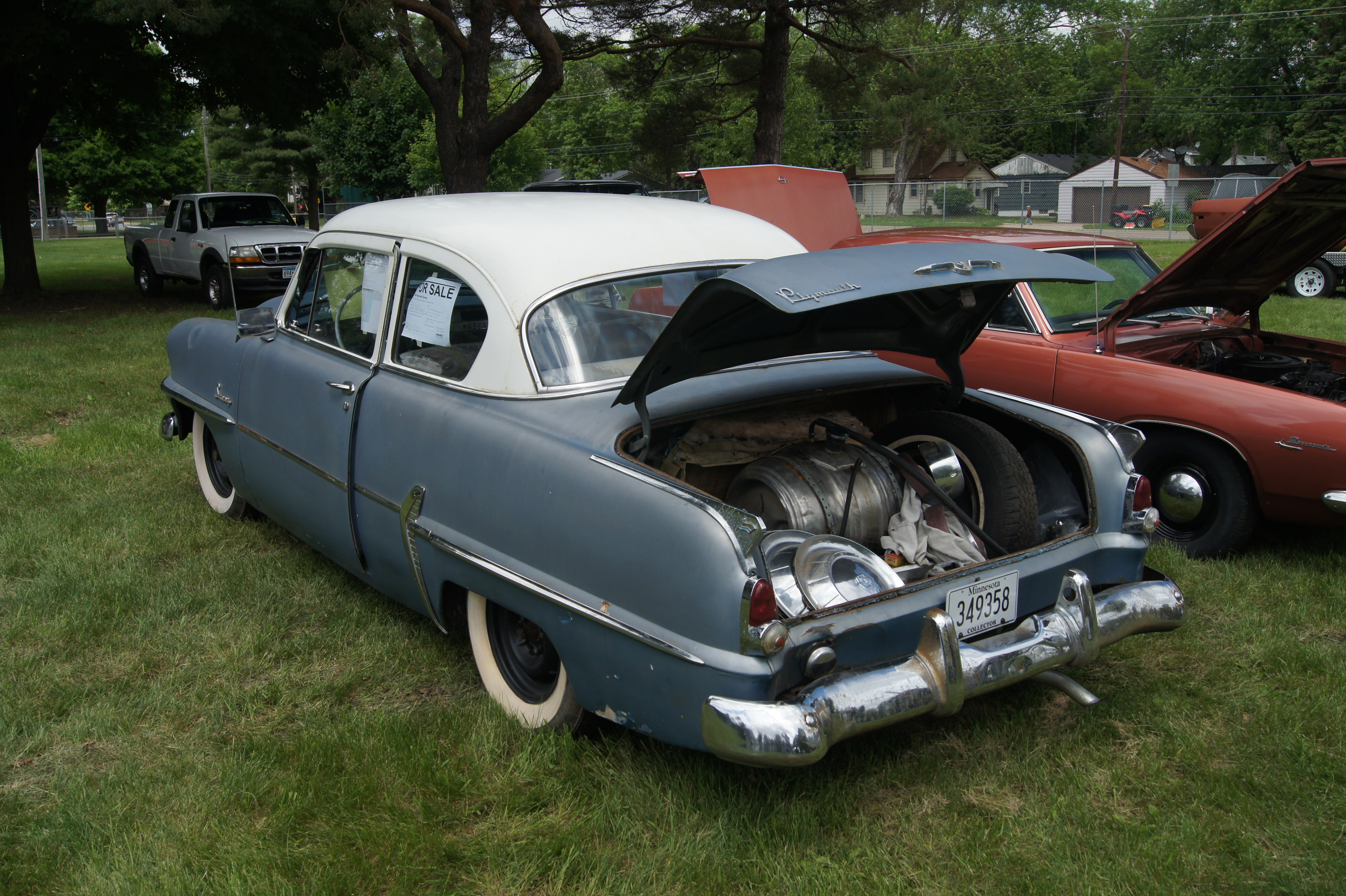 Midwest Mopars in the Park National Car Show & Swap Meet Dakota County Fairgrounds Farmington, Minnesota May 30 & 31, 2015 Click here for more car pictures at my Flickr site.